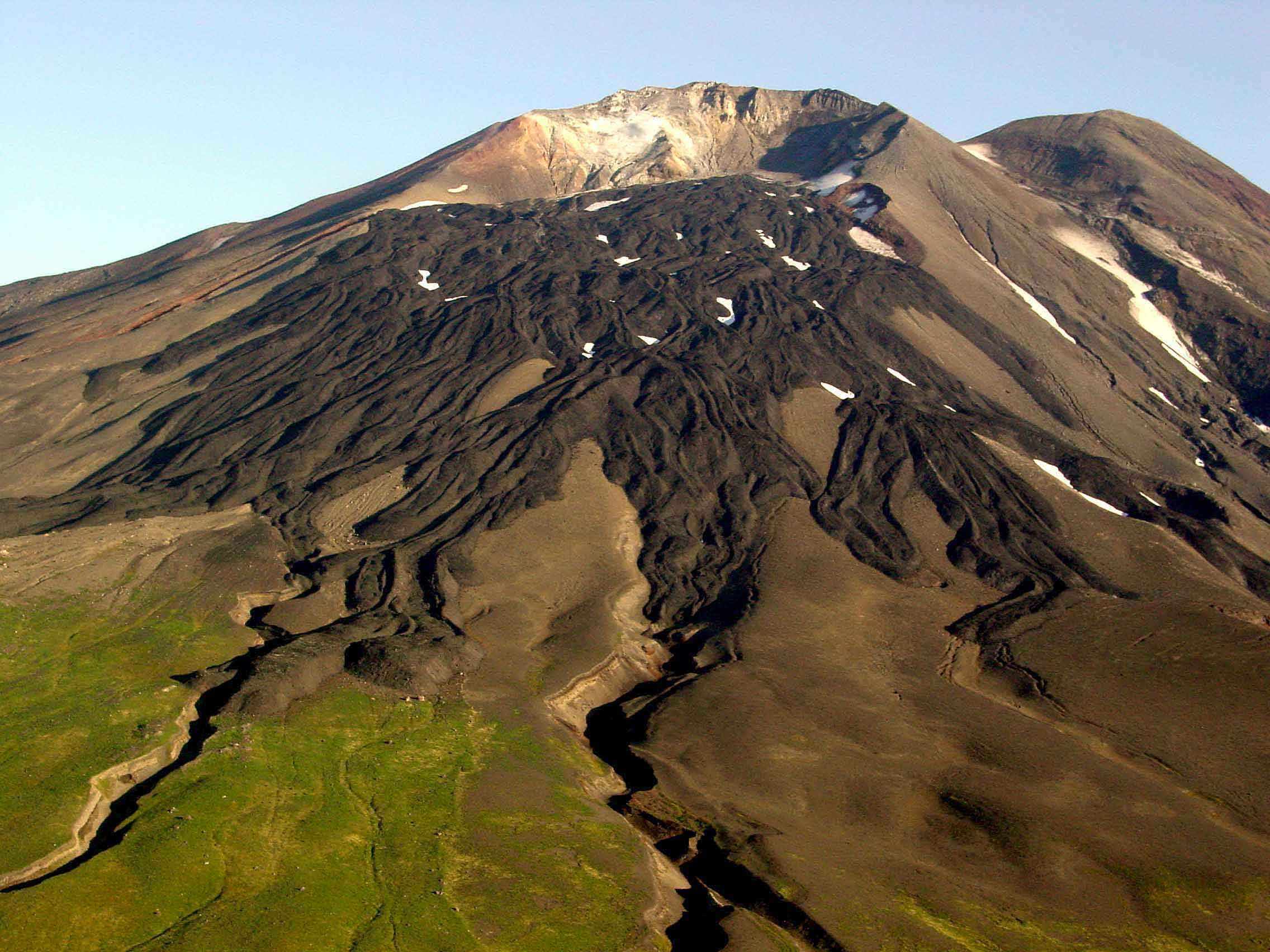 Gareloi Volcano, elevation 1573 m, in the westeren Aleutian Islands, Alaska. Levied lava flows from a 1980s eruption drape the south flank of the southern summit crater. The white zone on the crater headwall is an extensive fumarole field.